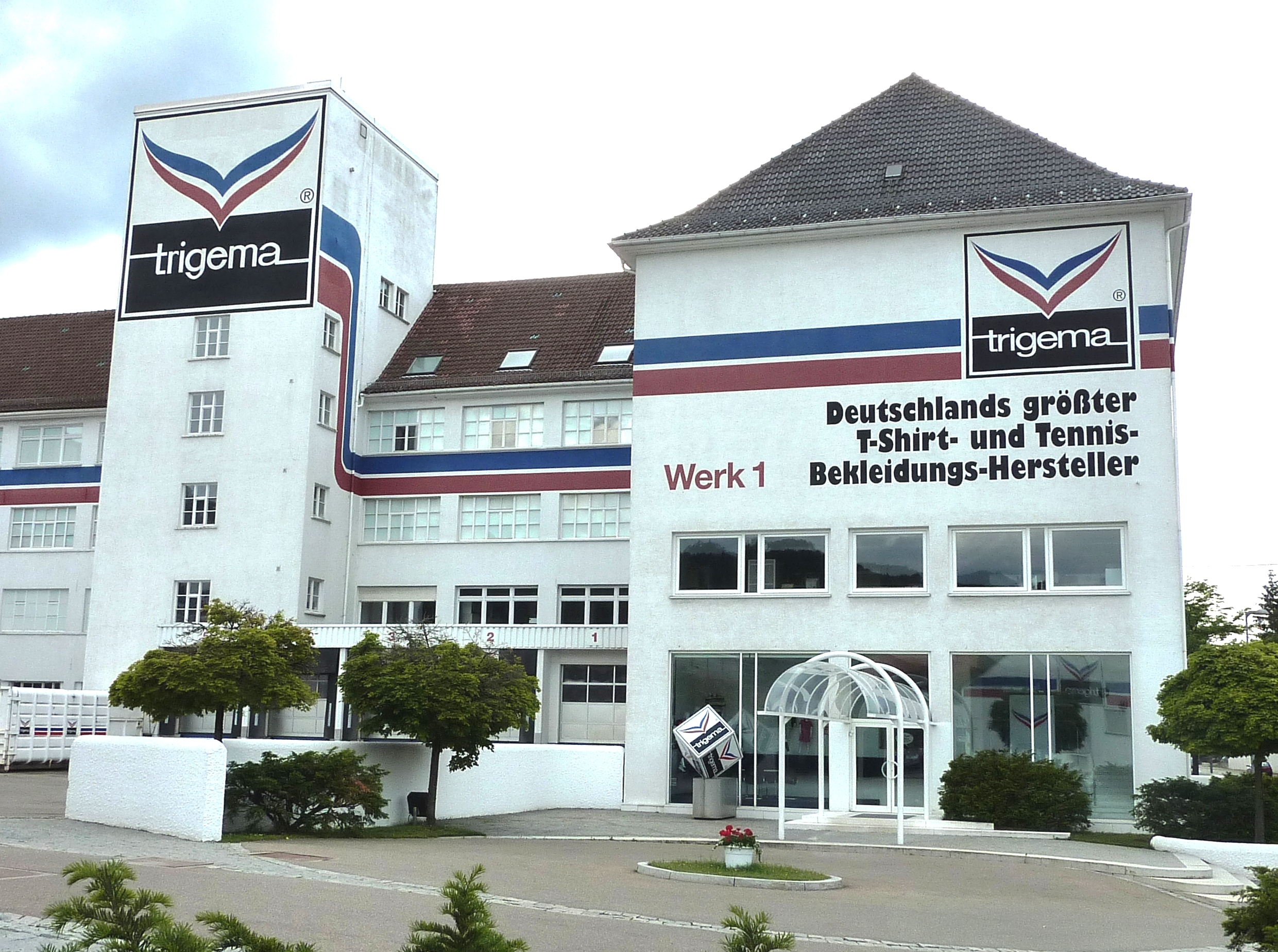 TRIGEMA Headquarters in Burladingen (Germany)